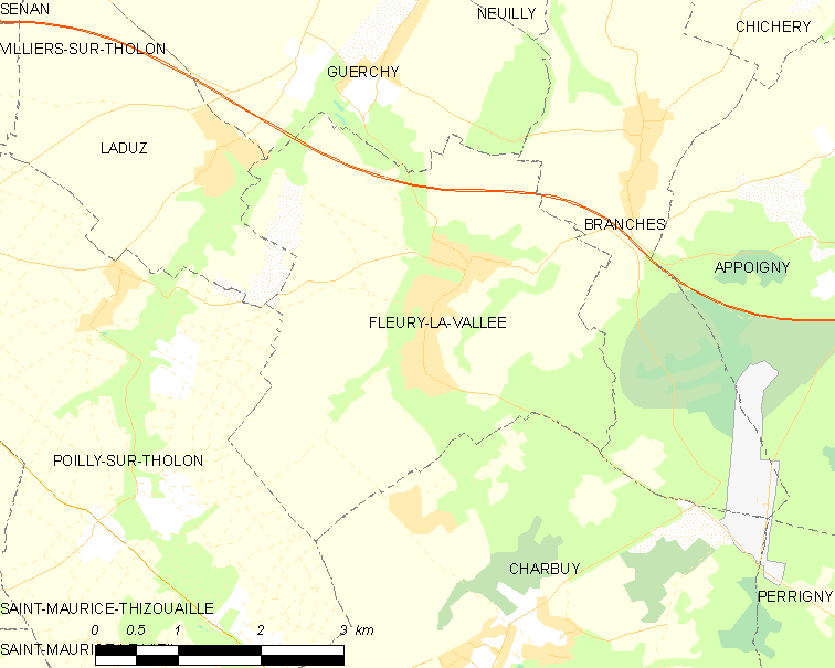 Map of French municipality Fleury-la-Vallée